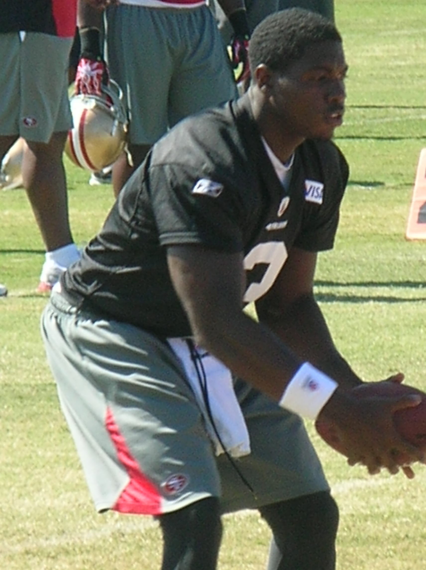 San Francisco 49ers quarterback Jarrett Brown at training camp in Santa Clara, California.